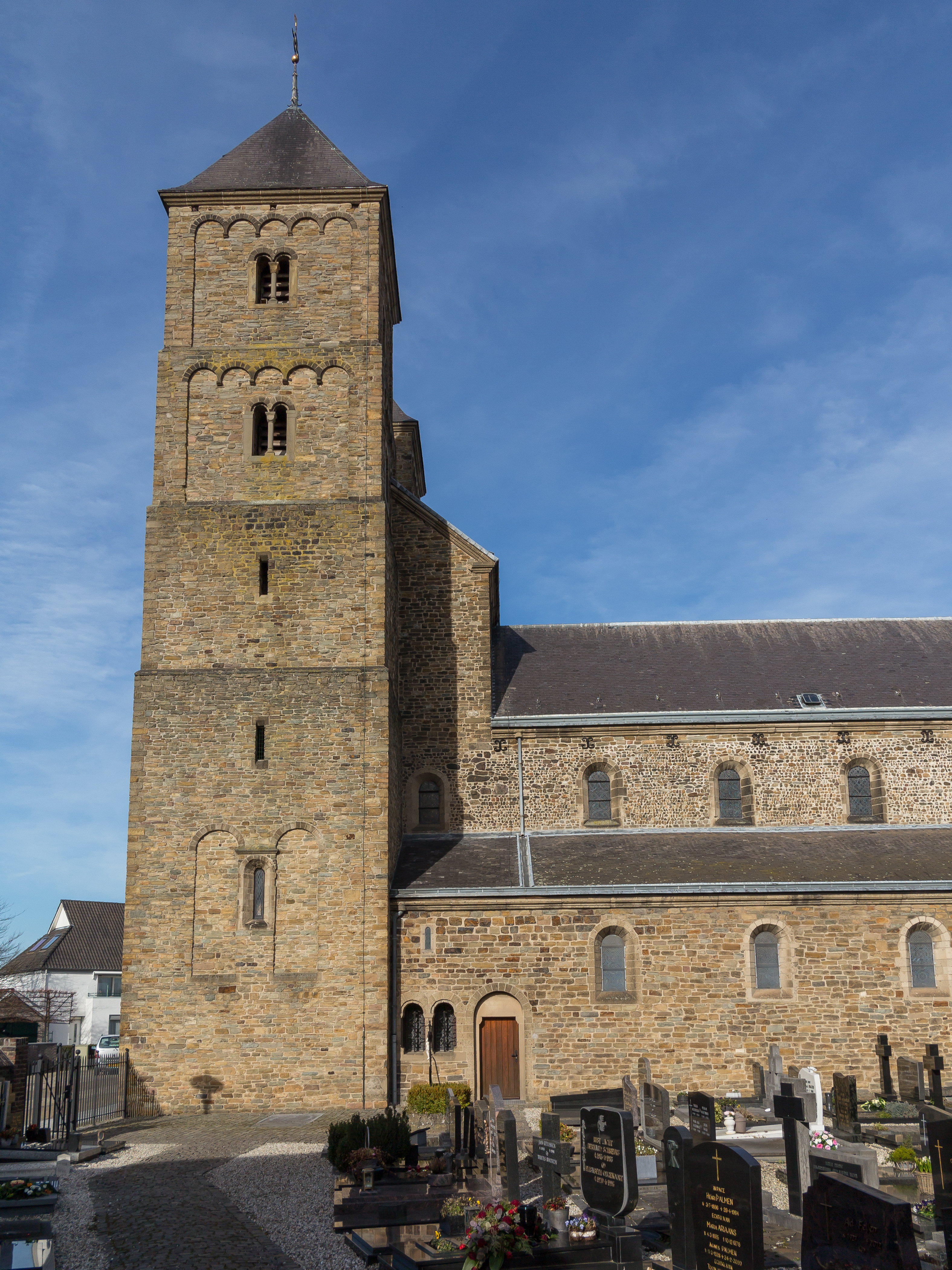 Susteren, basilica: de Sint Amelbergbasiliek